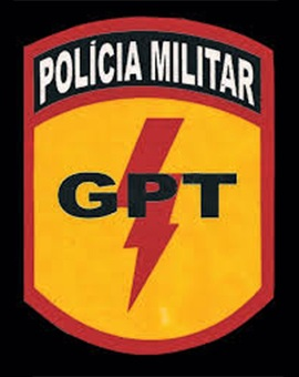 GPT-PMGO Coat of Arms